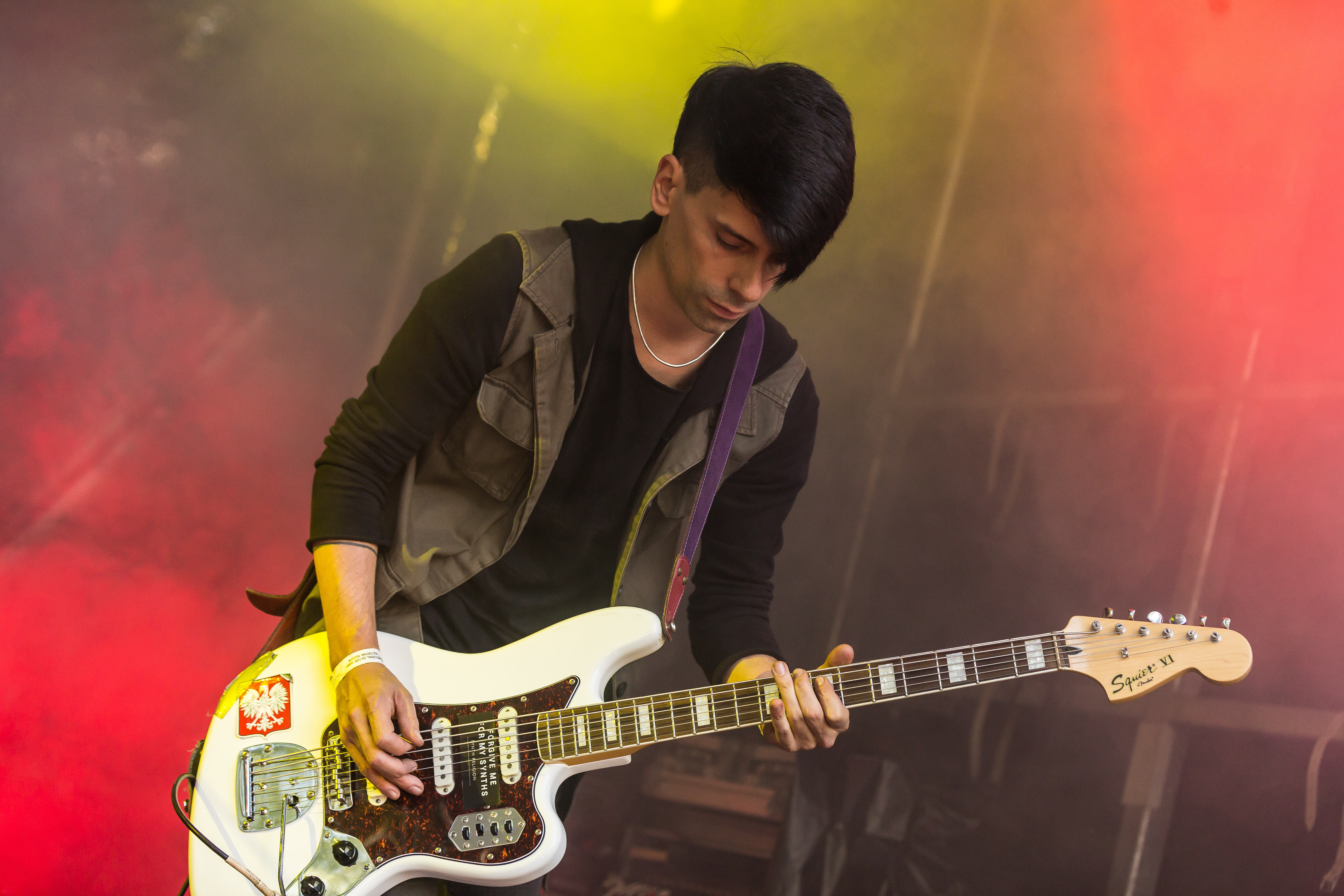 The Italian cold wave band Ash Code at the Nocturnal Culture Night 12 2017 in Deutzen/Germany.